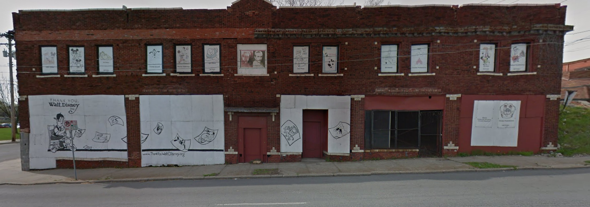 Just as Apr, 2017